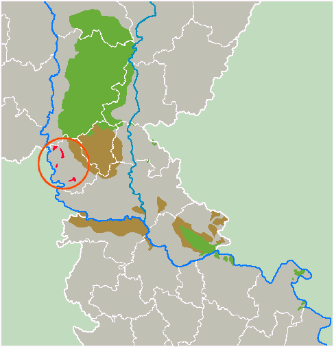 LEGEND: Green - Sands, Red - Selected Sand, Brown - Loess. Српски (ћирилица): Мапа је због потребе приказивања садржаја мала и није у потпуности прецизна. Употребљени извори су педолошке карте и мапе заштићених подручја Завода за заштиту природе, као и рад др Млађена Јовановића Пешчаре у Србији 2014, Природно-математички факултет Универзитета у Новом Саду.